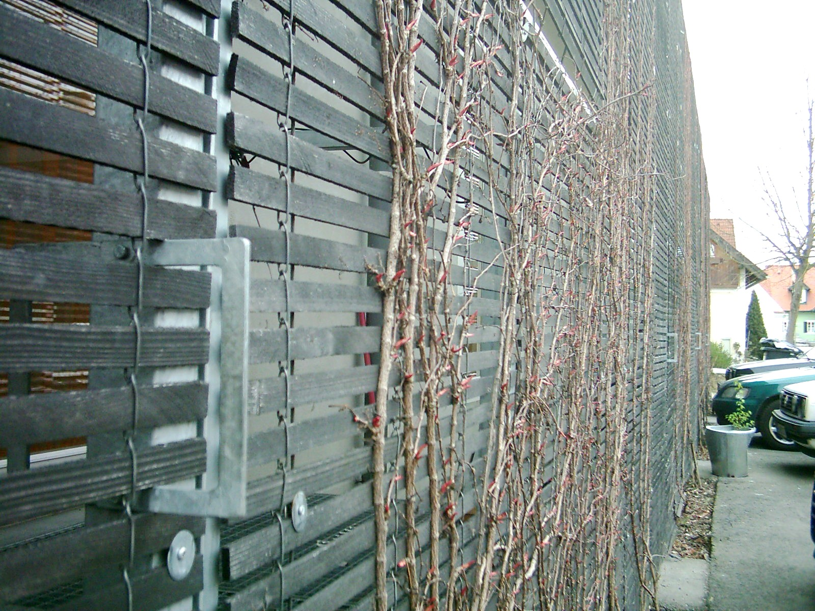 Trellis with budding Parthenocissus tricuspidata at the north-east side of the residential building Black Treefrog in Bad Waltersdorf, Austria.